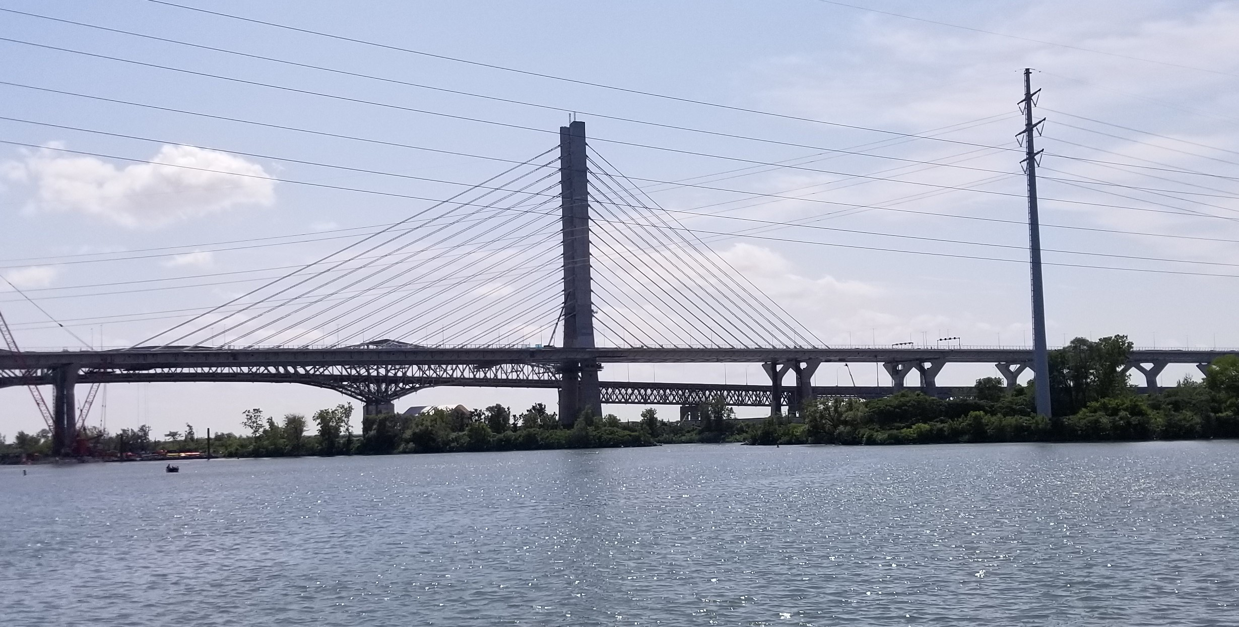 The Samuel-de-Champlain bridge as viewed from Parc des Vélos in Brossard